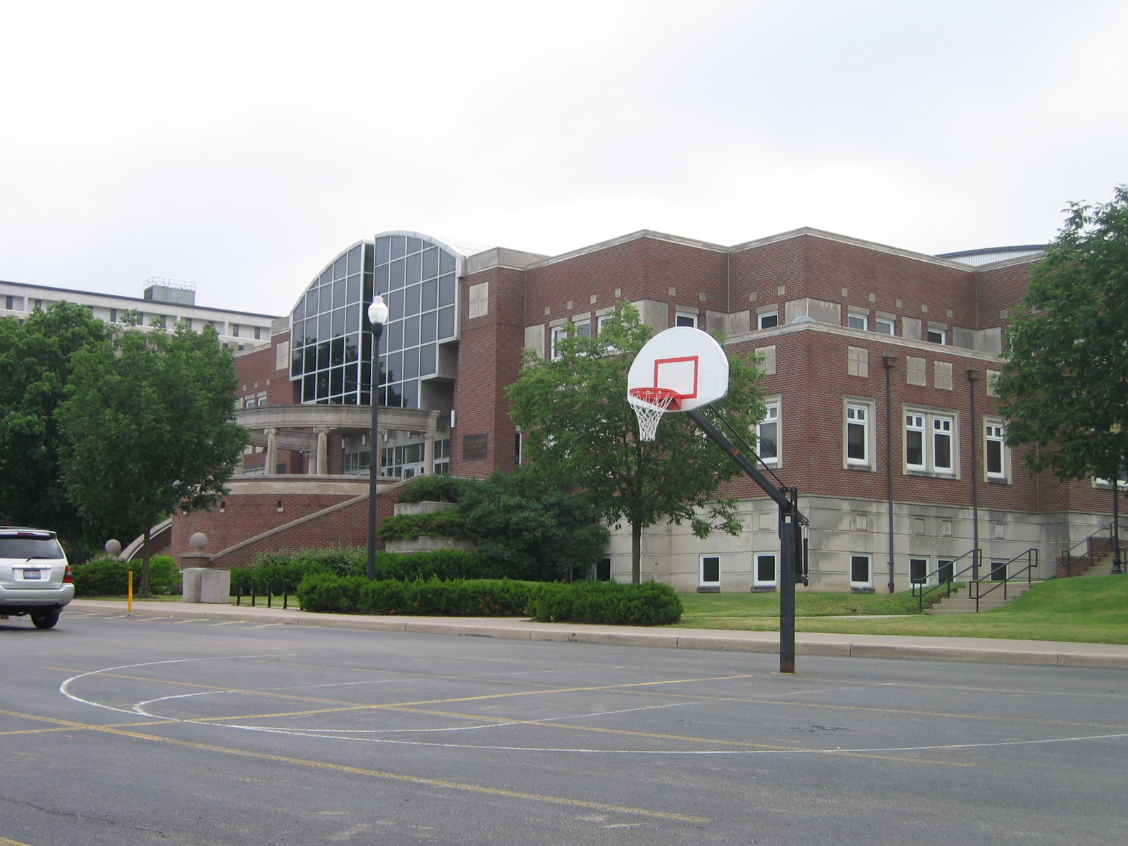 Football & Basketball Facilities U Dayton campus Gym